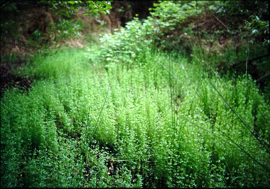 Galium saxatile (Rubiaceae) ; small gallium, here, on "plateau d'Helfaut" (natural area, in the north of France, near Saint-Omer in Nord-Pas-de-calais Region). Sámegiella: Galium saxatile ; petit gaillet de la strate herbacée, de la famille des Rubiacées appartenant au genre Galium. Quand le milieu lui convient (ici sur le plateau d'Helfaut, sur l'actuelle réserve naturelle des landes de Blendecques, sur d'anciens prés communaux et carrières de silex, colonisés par une lande acide, sur argile argile à silex (milieu plutôt acide et localement humide) dans le nord de la France près de Saint-Omer, dans le Nord-Pas-de-Calais), il peut coloniser des taches de plusieurs mètres carrés, en milieu ensoleillé ou lisière. La pollinisation se fait souvent de manière synchrone avec envol de pollens faisant penser à un léger nuage de fumée qui quitterait la strate herbacée emporté par un petit coup de vent.